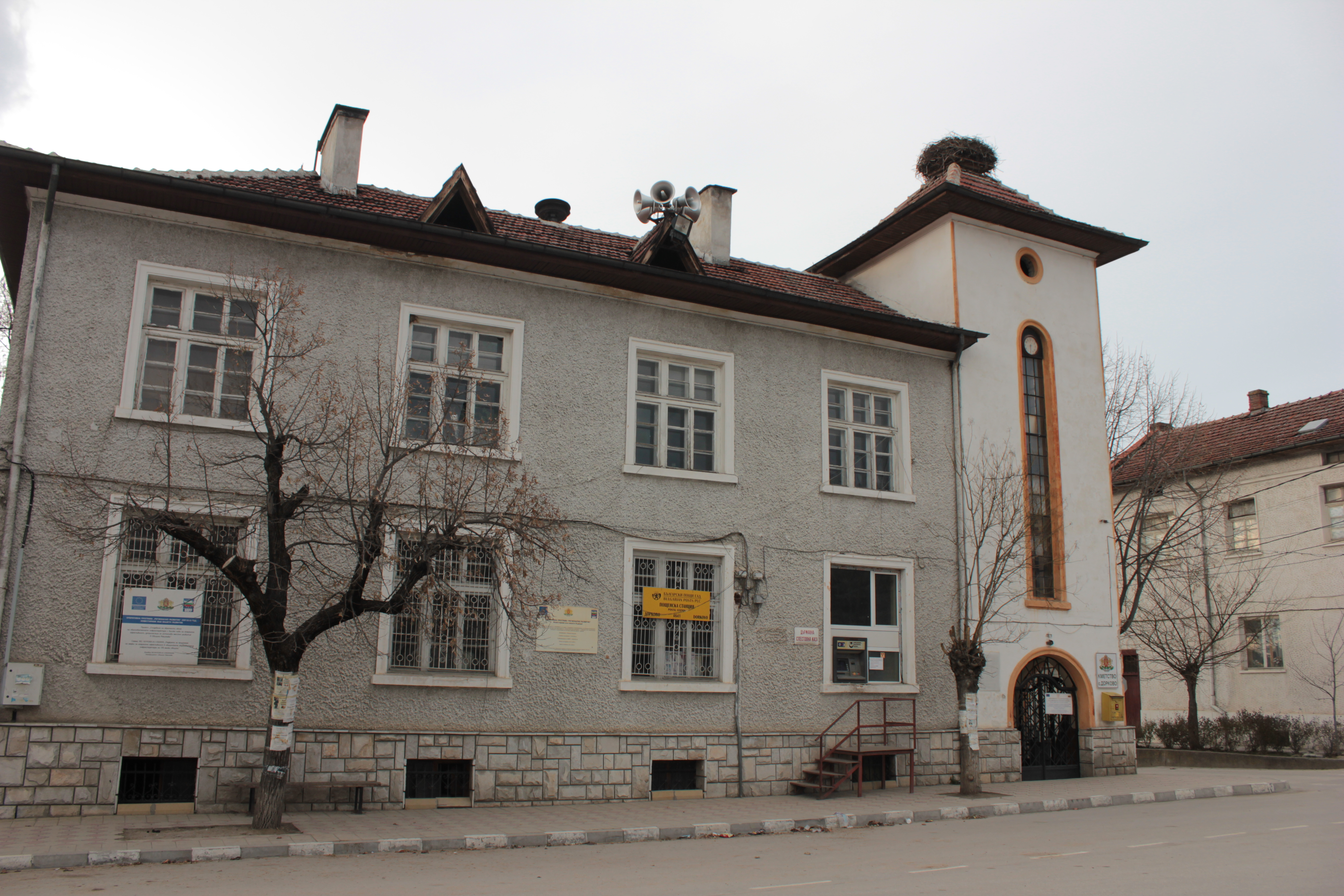 Dorkovo village hall and post office